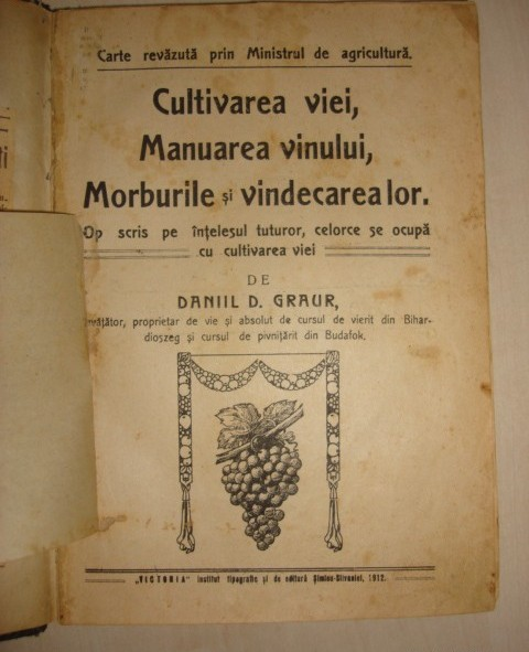 The title page of the book of Daniil D. Graur: "Cultivarea viei, Manuarea vinului, Morburile și vindecarea lor", Editura Victoria, Șimleu Silvaniei, 1912. "Book reviewed by the Ministry of Agriculture". Daniil D. Graur was a editor, journalist, teacher, and, vineyard owner in Giurtelecu Şimleului.